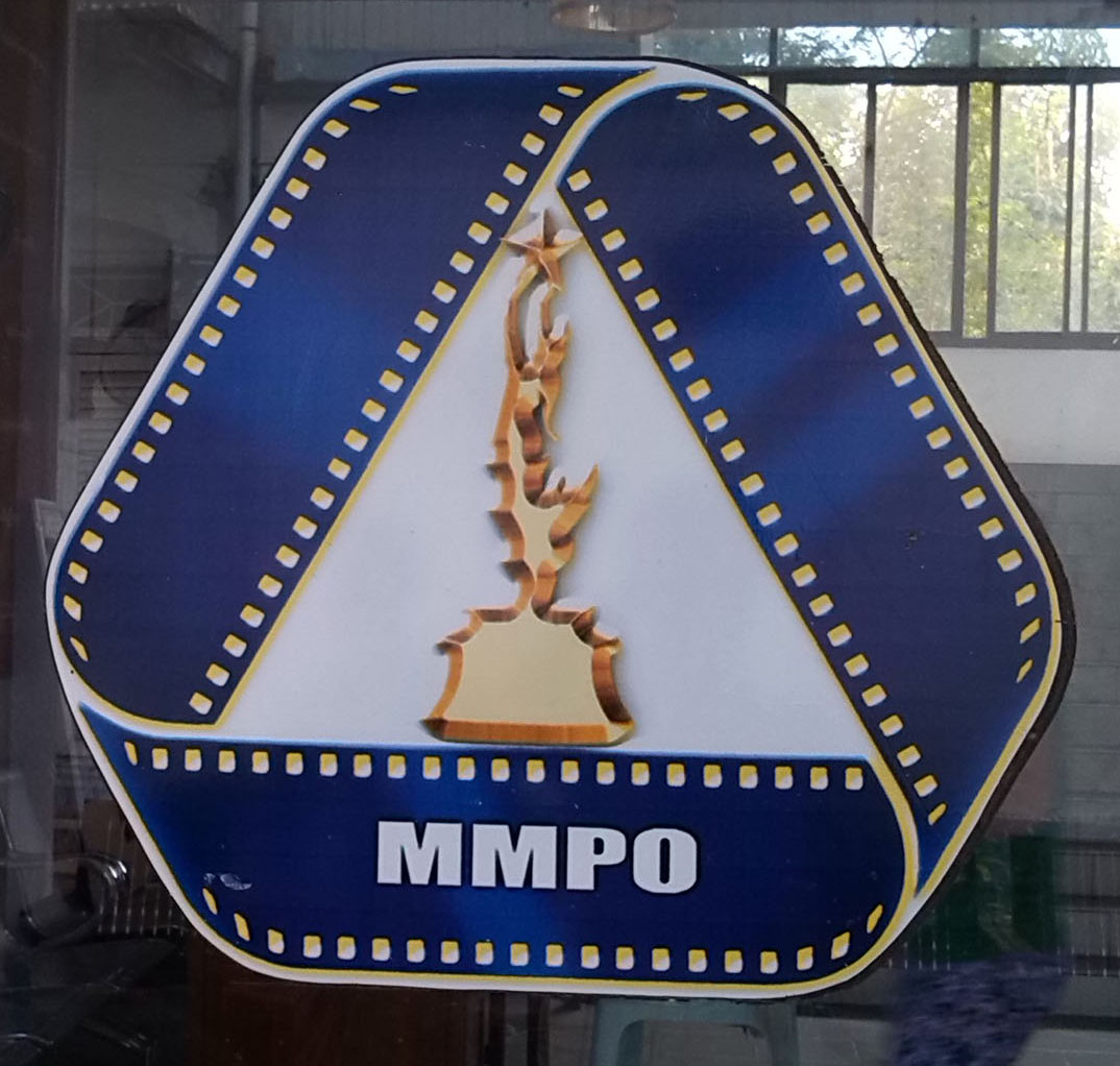 Logo of Myanmar Motion Picture Association မြန်မာဘာသာ: မြန်မာနိုင်ငံ ရုပ်ရှင် အစည်းအရုံး လိုဂို